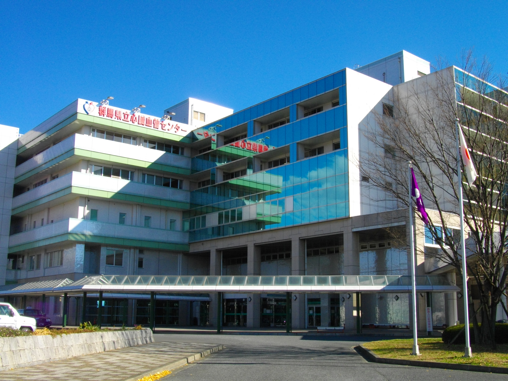 Gunma Cardiovascular Center